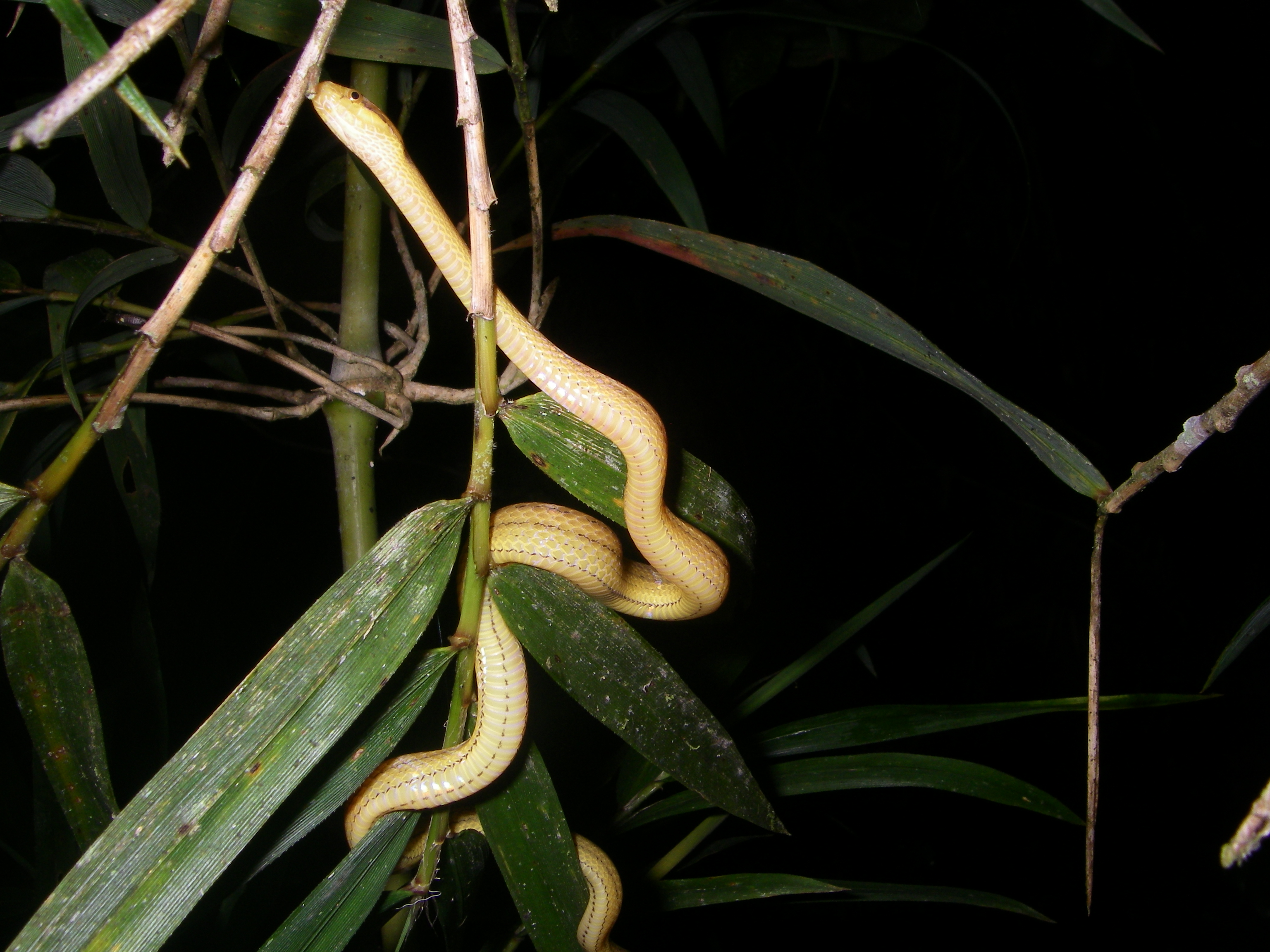 Compsophis laphystius (Colubridae); Sakaroa, Ranomafana National Park, Madagascar